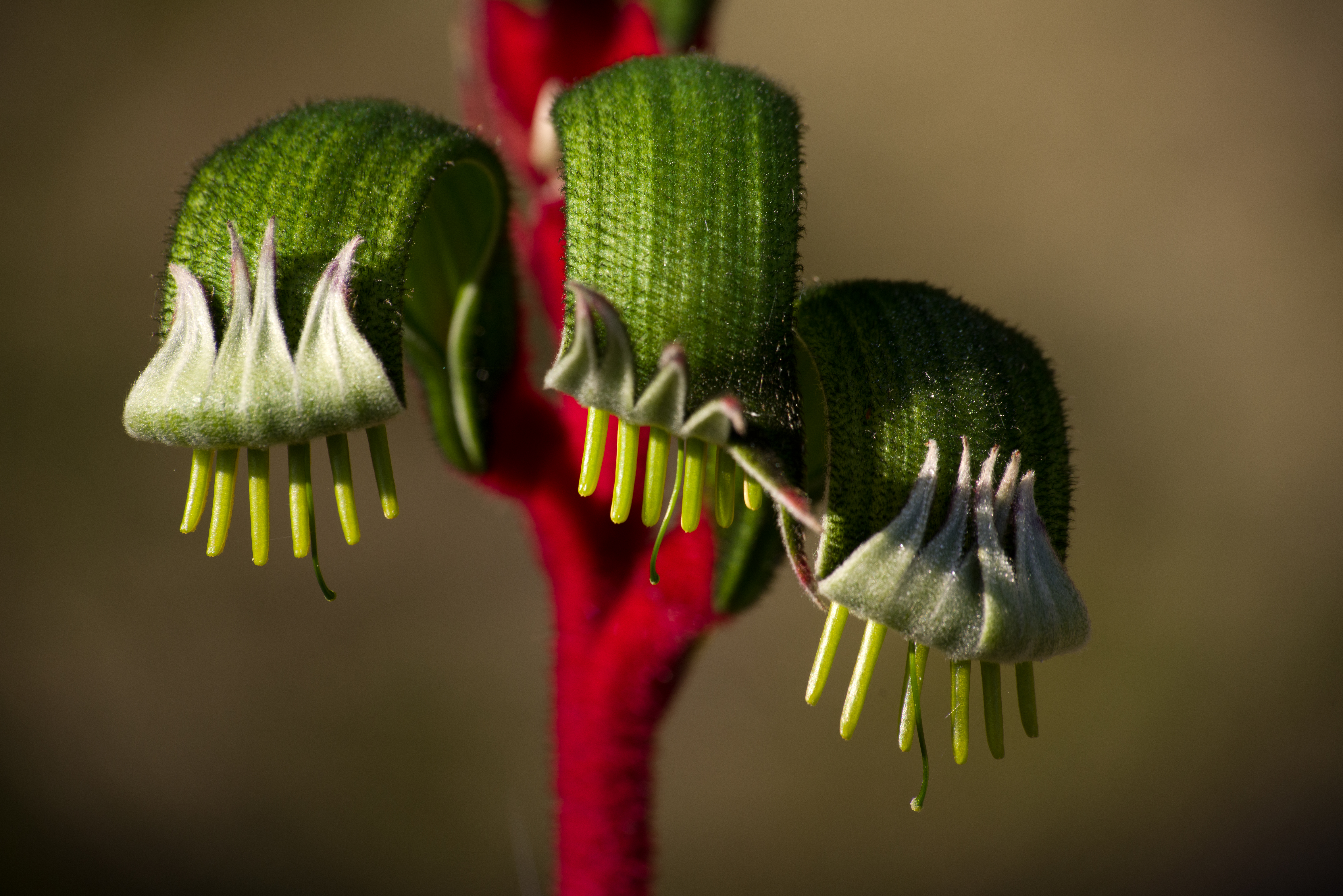 Anigozanthos manglesii "paw" part from where the name is derived